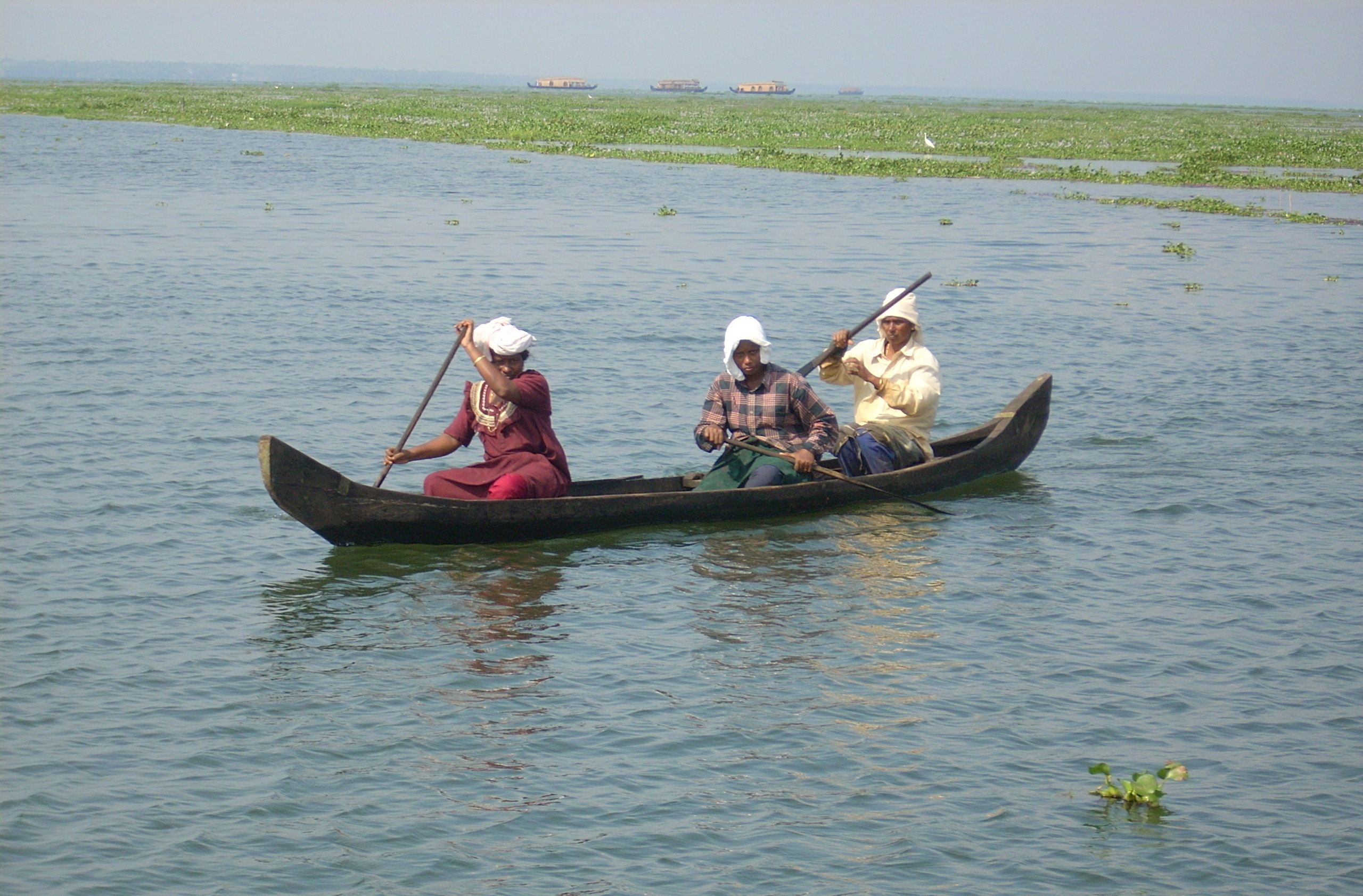 Villagers use a country boat for travl in the Alappuzha-Kuttanad area